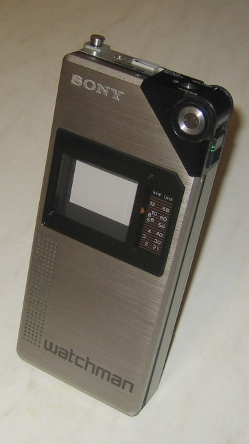 A Sony Watchman FD210